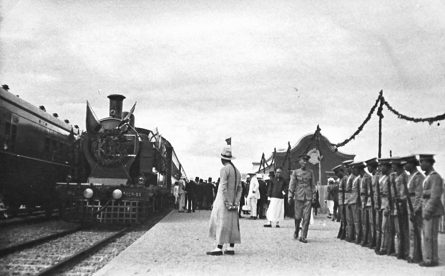 Opening of Chinese Section of the Canton-Kowloon Railway in October 1911. The first train arrived Shenzhen Railway Station.